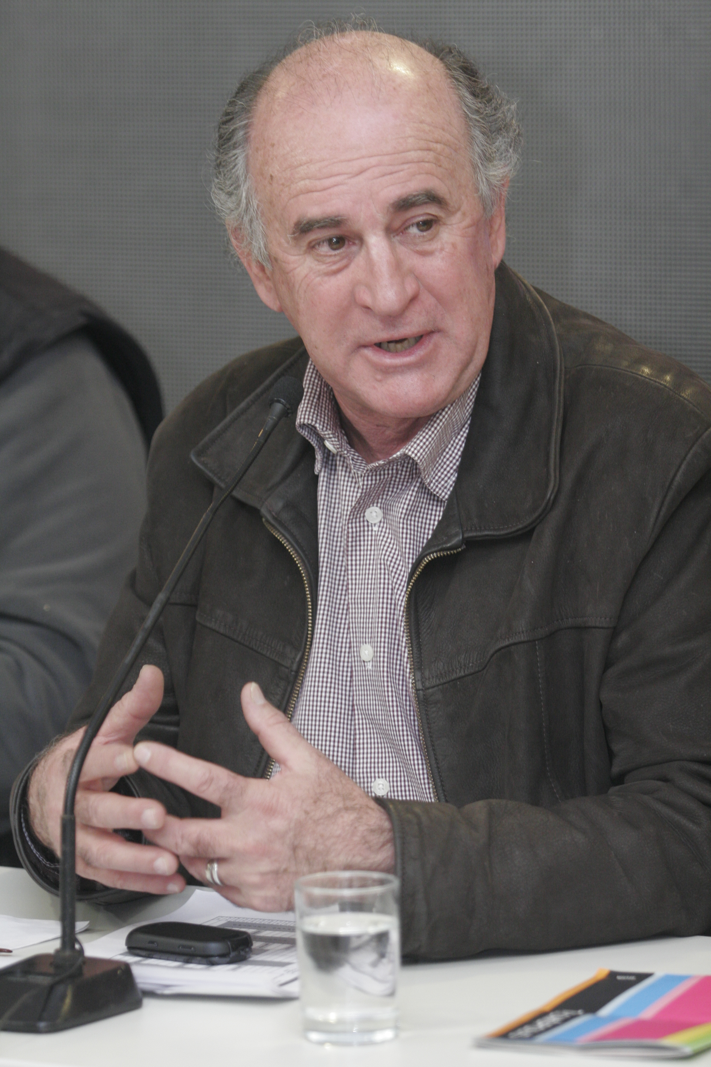 Oscar Parrilli, the Chief of Staff to the President of Argentina (Secretario de la Presidencia de la Nación), at the 2011 Tecnópolis fair, in Villa Martelli. Photo: Laura Szenkierman/Tecnópolis.